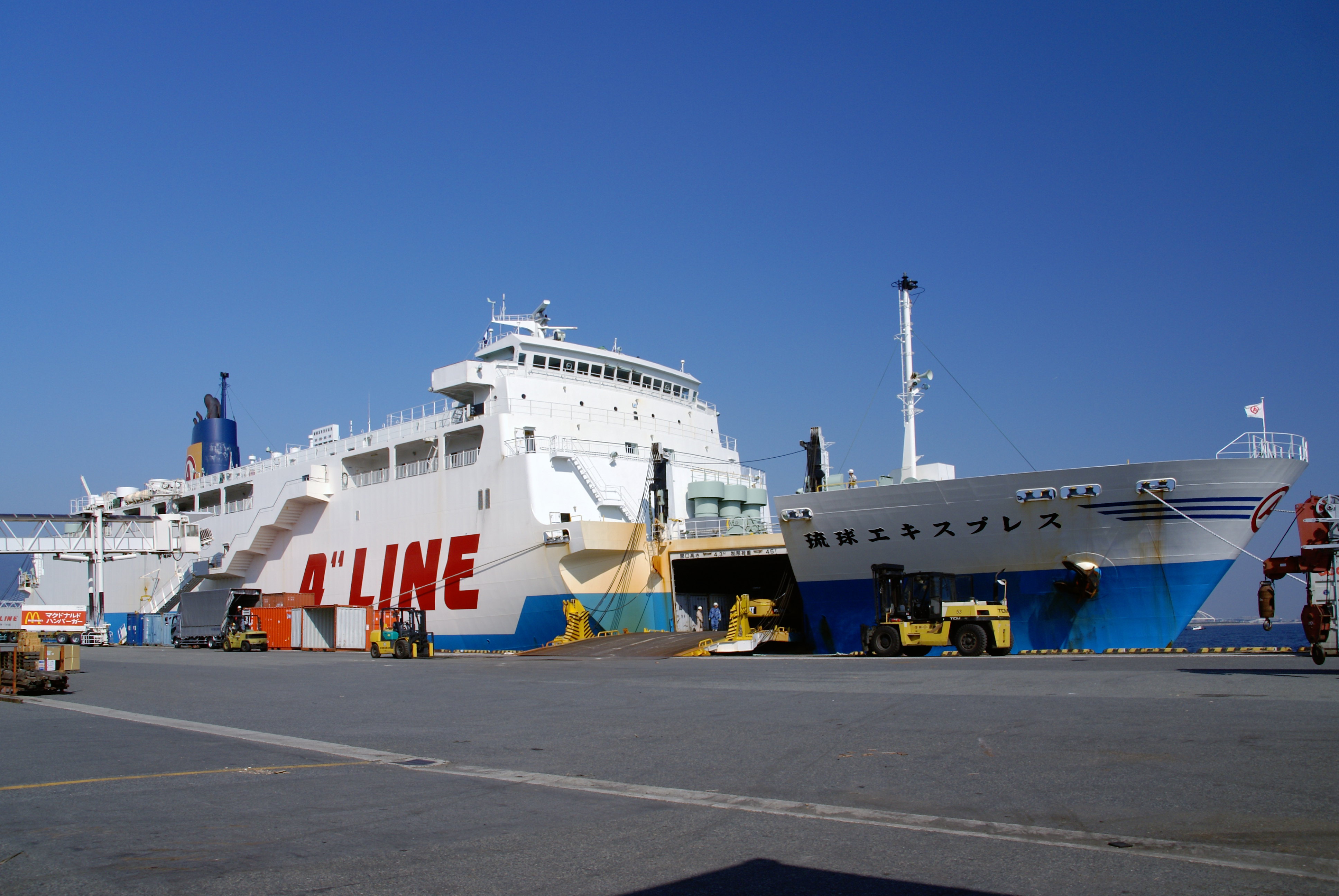 "Ryukyu Express" at Rokko Passenger Ship Terminal of the Kobe harbor in Kobe, Hyogo prefecture, Japan